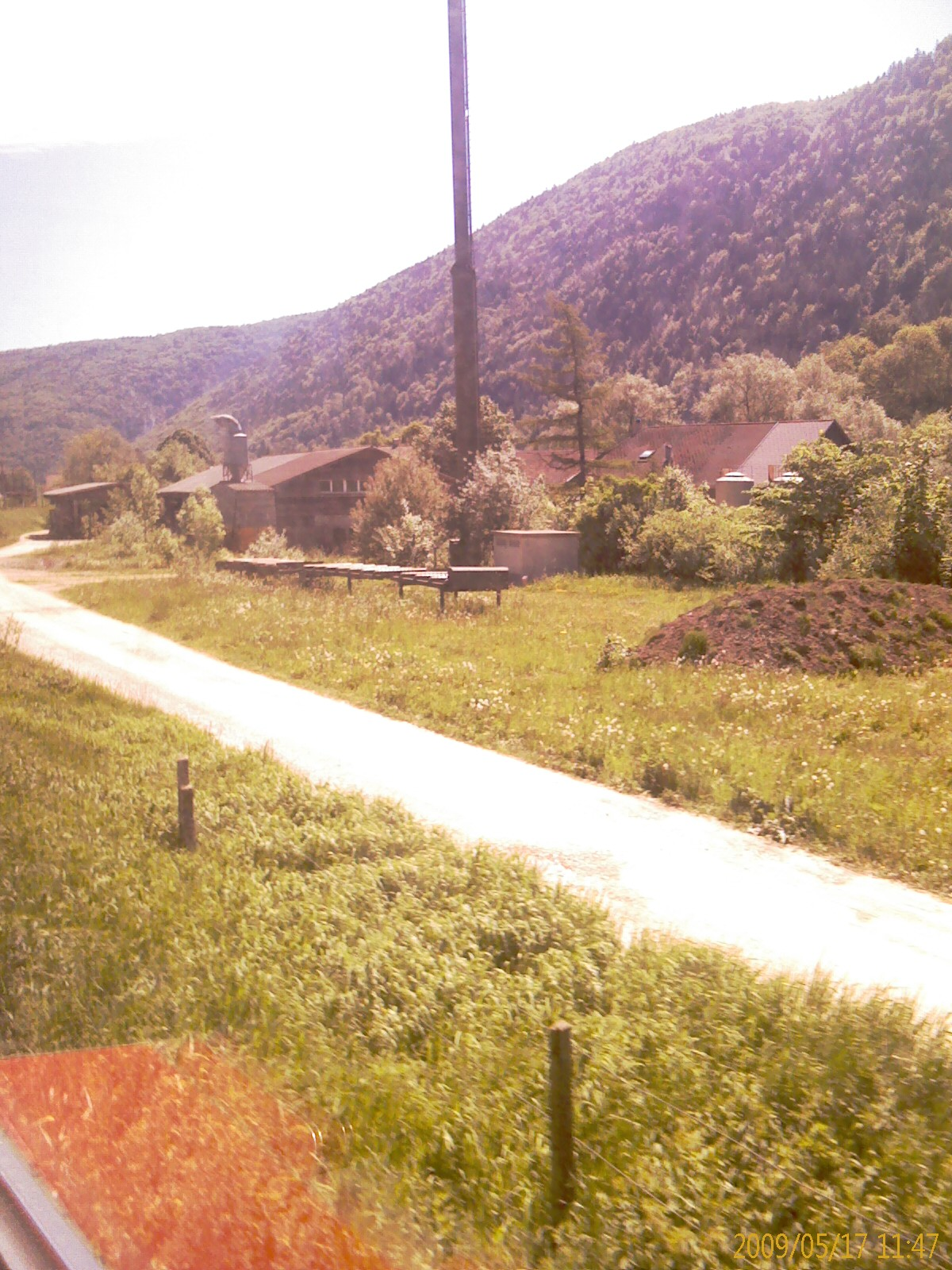 La Heutte, canton of Bern, SwitzerlandEsperanto: La Heutte, Kantono Berno, Svislando